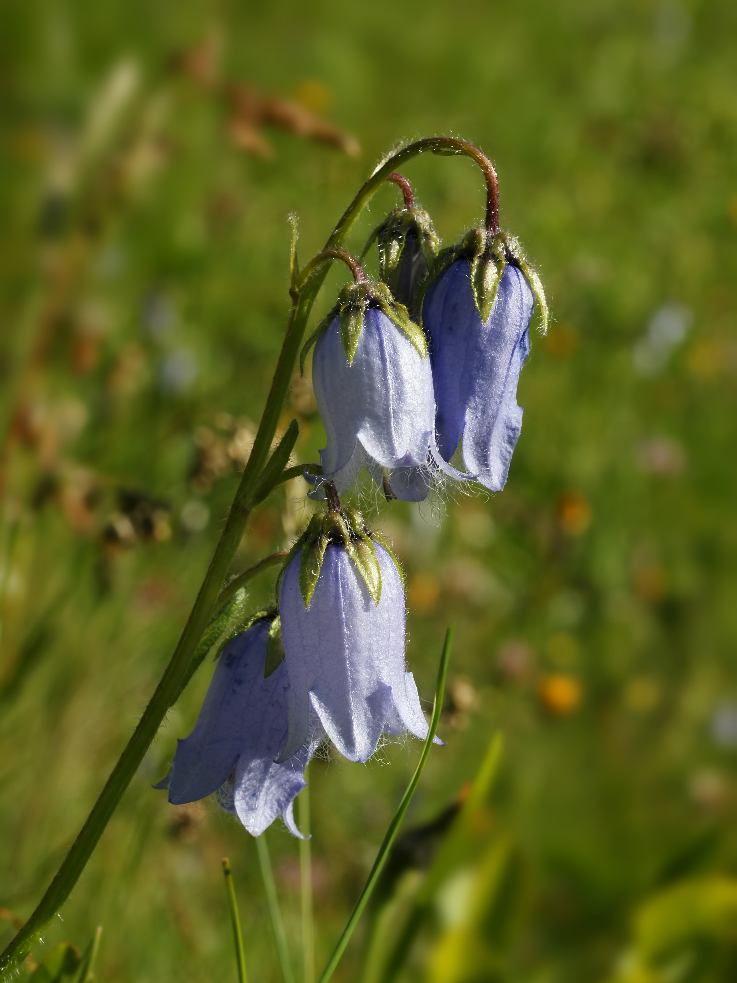 Bearded bellflower, at the Grand Saint Bernard Pass, Italy